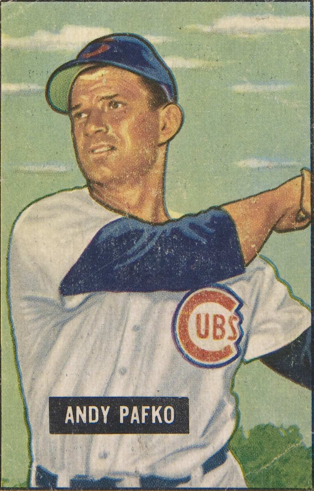 Baseball Picture Cards (cropped from the four cards shown in the link) Issued by Bowman Gum Company Date: 1951 Medium: Commercial color lithography Dimensions: image: 3 1/8 x 2 1/16 in. (8 x 5.2 cm) each Classification: Prints Credit Line: The Jefferson R. Burdick Collection, Gift of Jefferson R. Burdick Accession Number: Burdick 327, R406(5b)